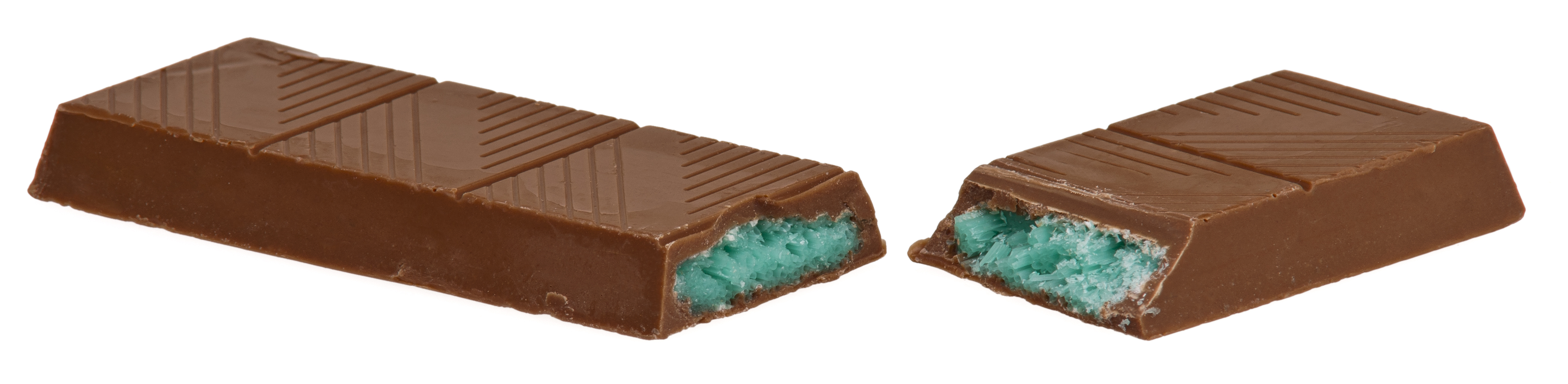 An Australian Peppermint Crisp candy bar, shown split in half.